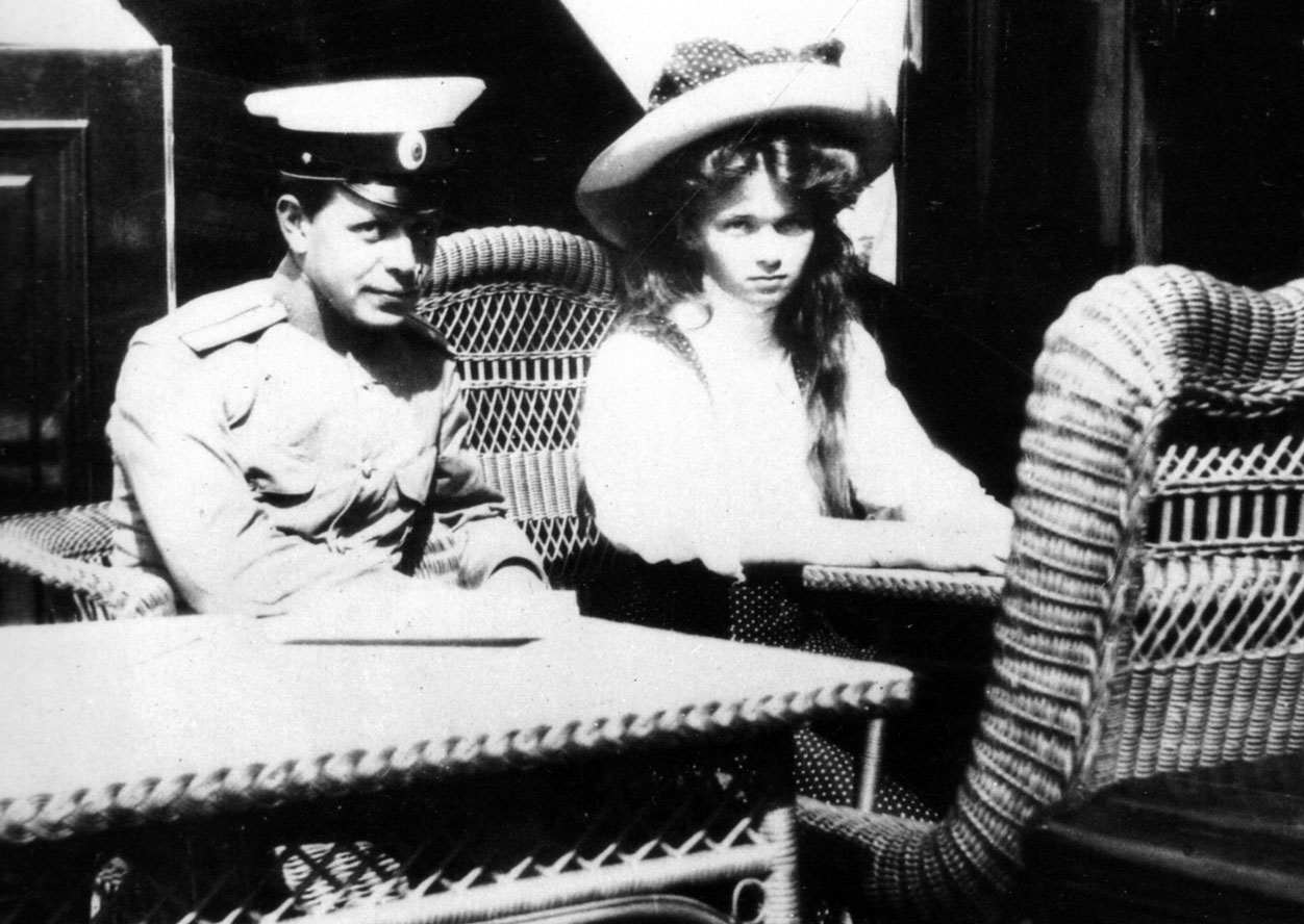 Dmitriy Pavlovich and Grand Duchess Olga aboard the Imperial yacht Standart